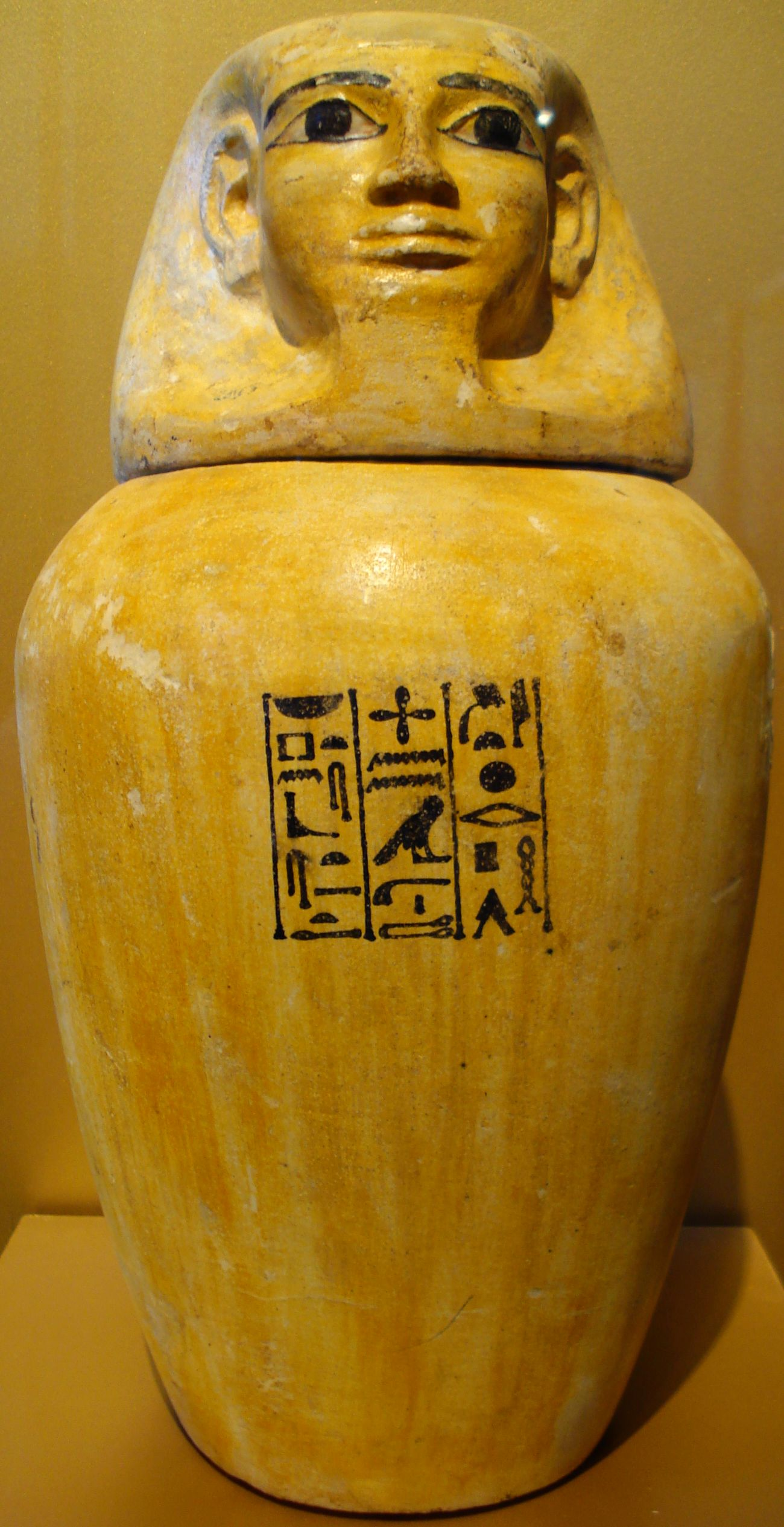 Canopic jar of Lady Senebtisi. Limestone. Middle Kingdom, Dynasty XII, c. 1938-1759. From Harageh, tomb 92.